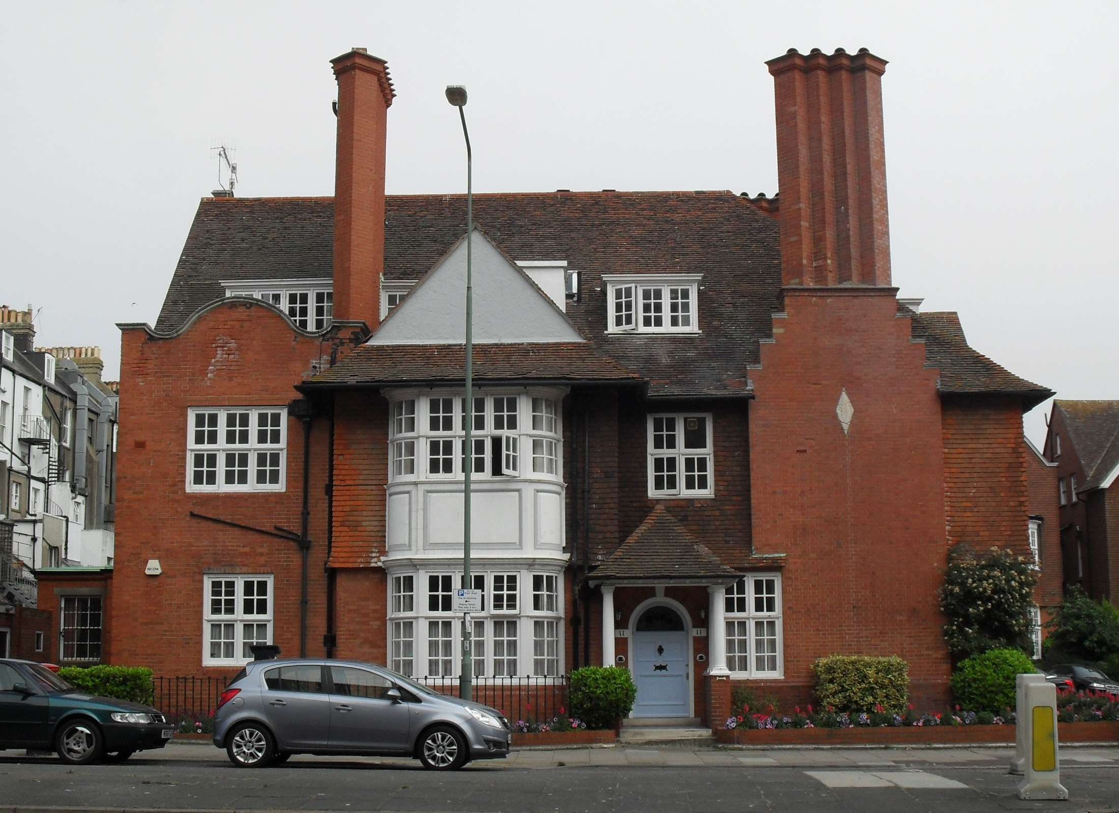 11 Grand Avenue, Hove, City of Brighton and Hove, East Sussex. Designed in 1900 by A. Faulkner and built by master builder William Willett. Listed at Grade II by English Heritage (NHLE Code 1205508)